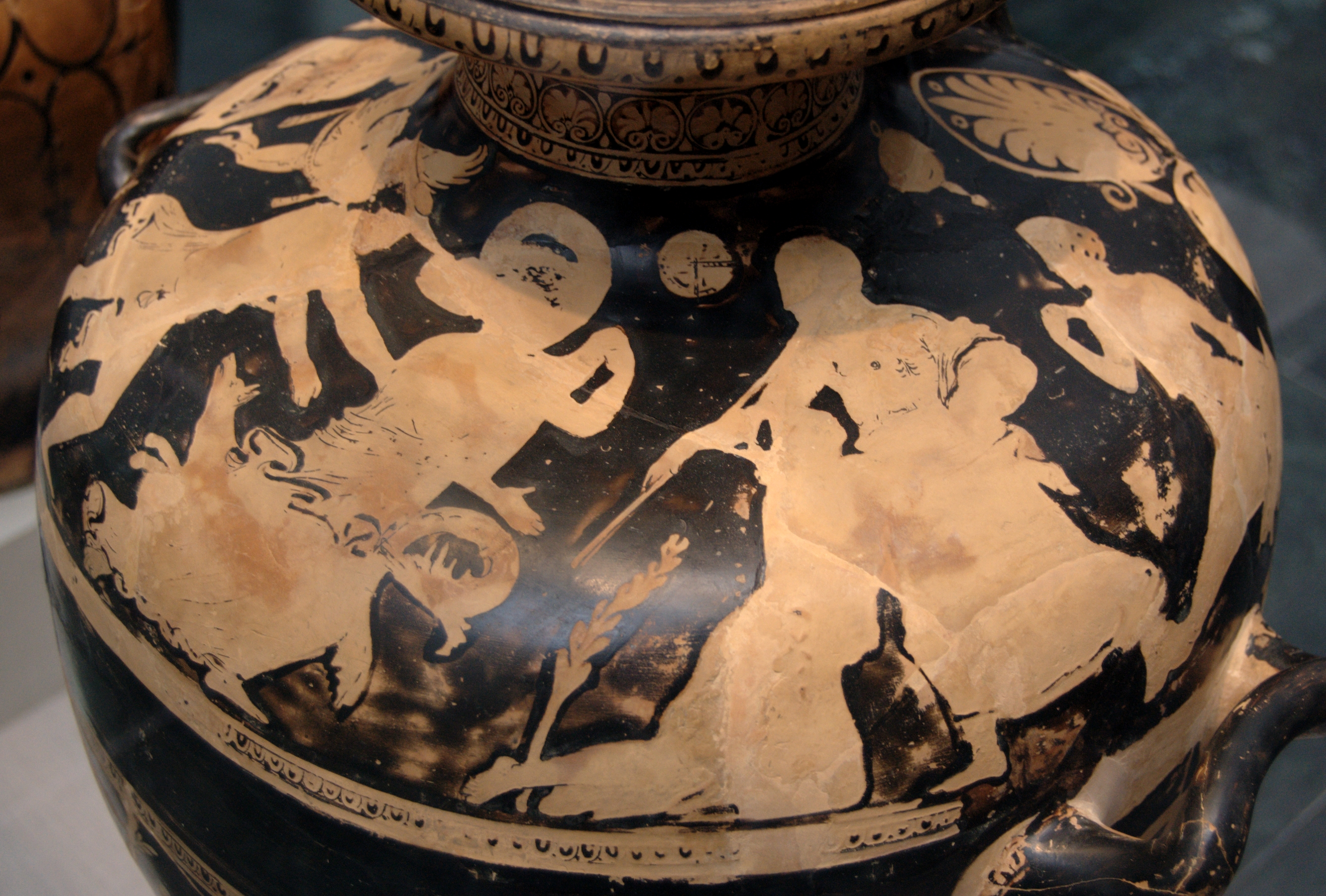 Peleus pursues Thetis, who shapeshifts in sea-monster and dog. Right, a Nereid is beseeching her father Nereus. Apulian red-figure hydria, ca. 370 BC.